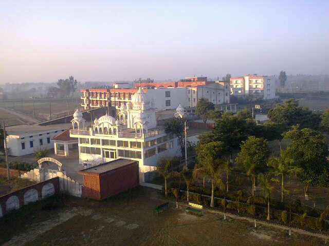 beautiful view of pussgrc